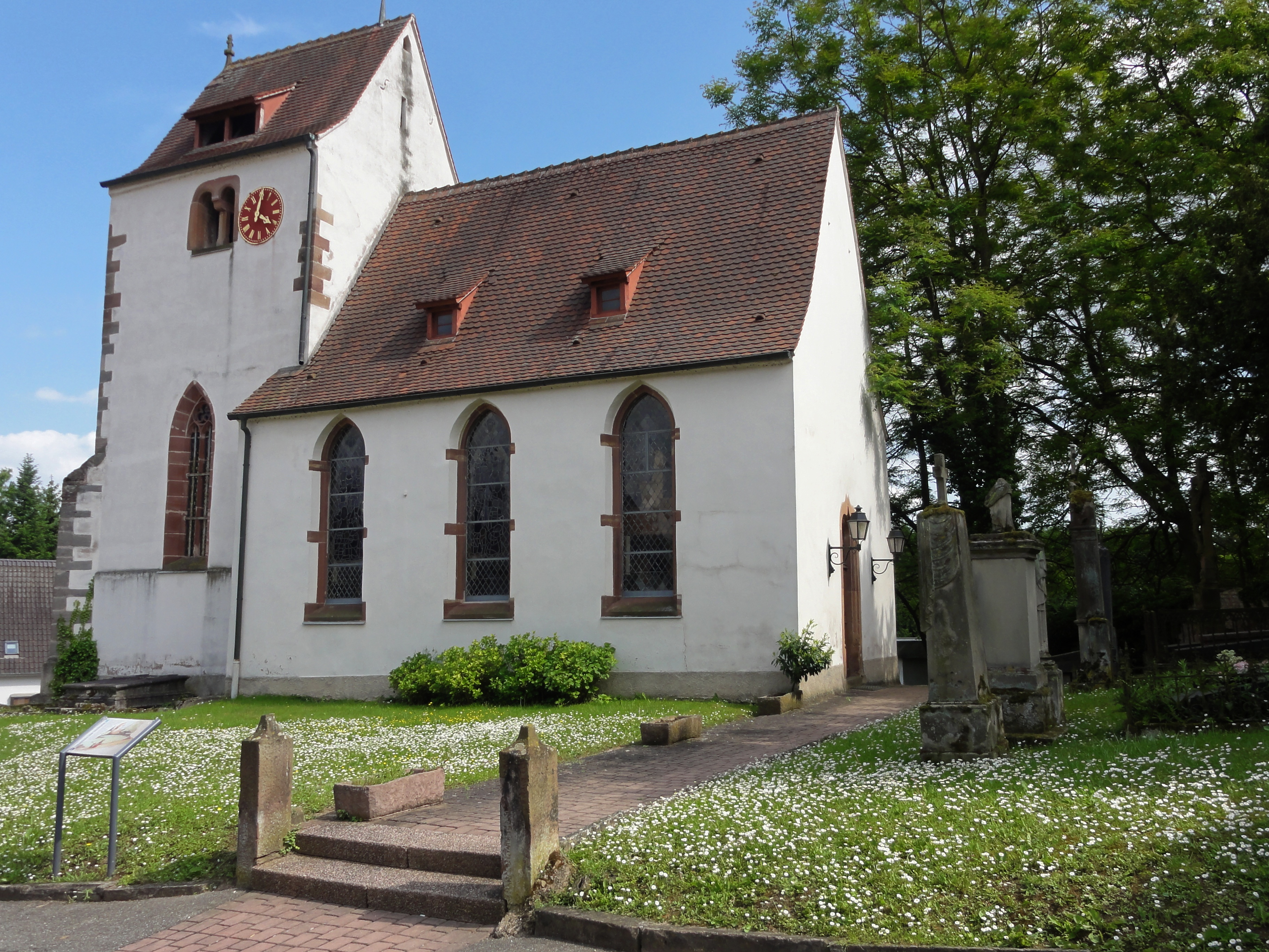 Alsace, Bas-Rhin, Hangenbieten, Église protestante (XIIe-XIIe-XVe): It is indexed in the Base Mérimée, a database of architectural heritage maintained by the French Ministry of Culture, under the references PA00084742 and IA67007174.